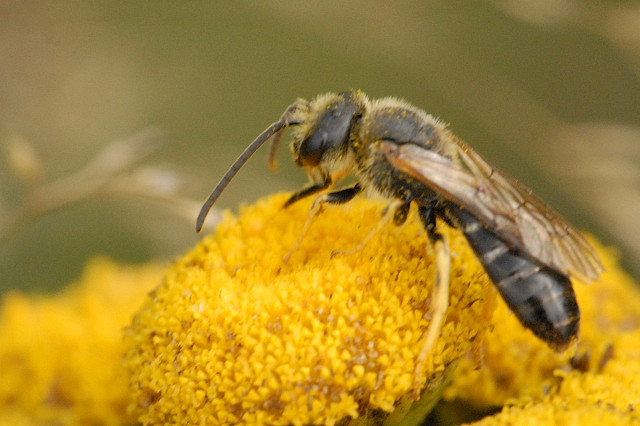 Halictus rubicundus from Commanster, Belgian High Ardennes .